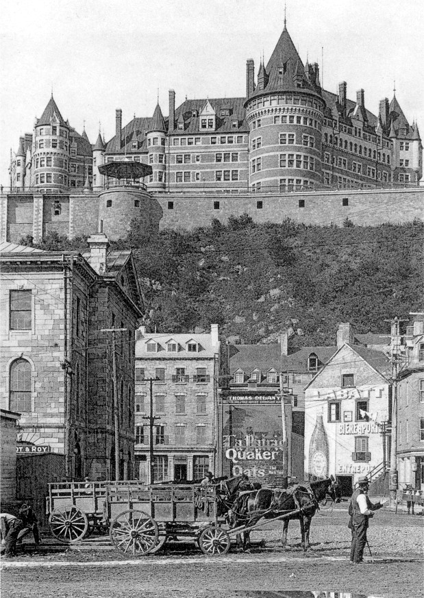 Château Frontenac, seen from the street of the Champlain market in the lower city, in Québec, Quebec, Canada, in 1907. The hotel does not yet have its central tower, which would be built in the first half of the 1920s.